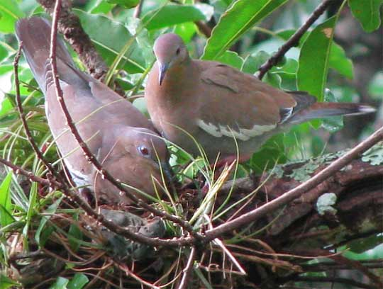 A pair of White Winged doves consider a nest site near a Yucatán cenote.